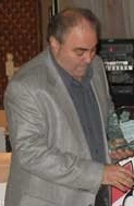 Bruno Ierullo in 2007.